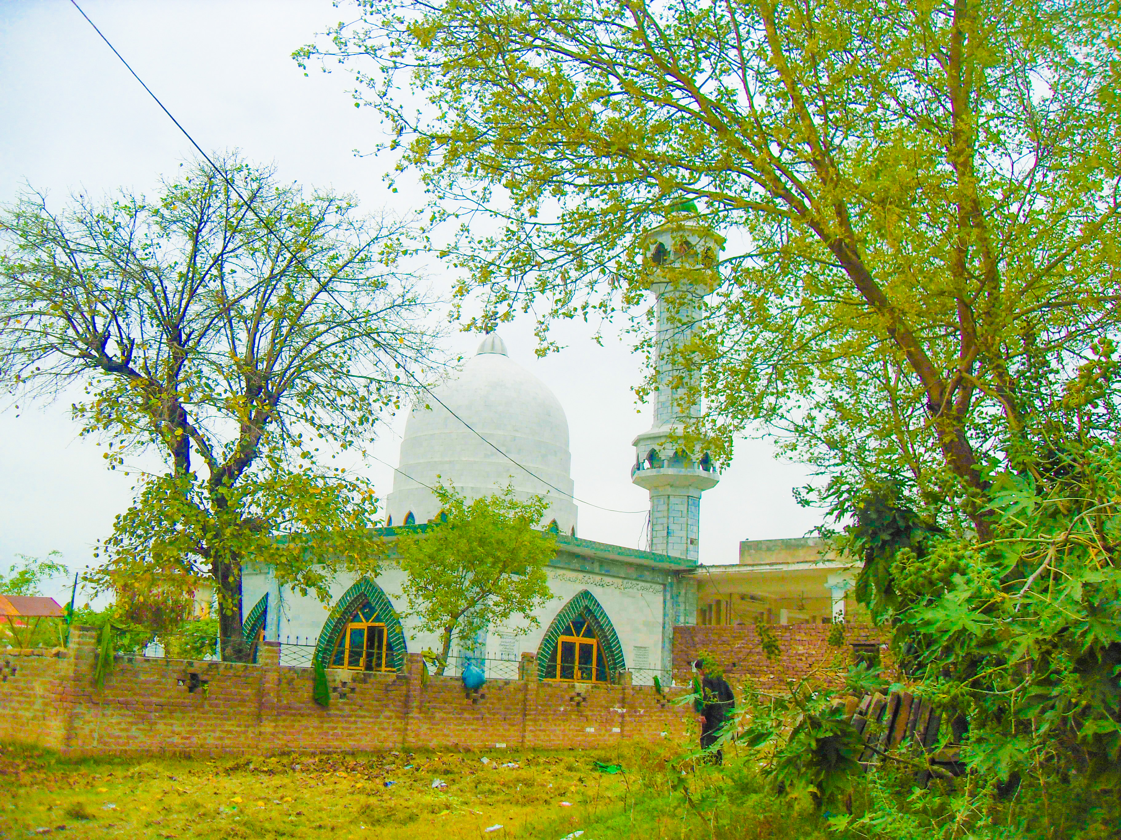 Mazar Mubarak Haji Baba